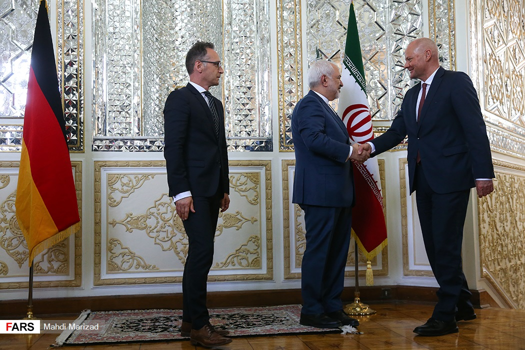 On a one-day visit to Tehran, German Foreign Minister Heiko Maas held a meeting with his Iranian counterpart Mohammad Javad Zarif on Monday at Iran’s Foreign Ministry Building.